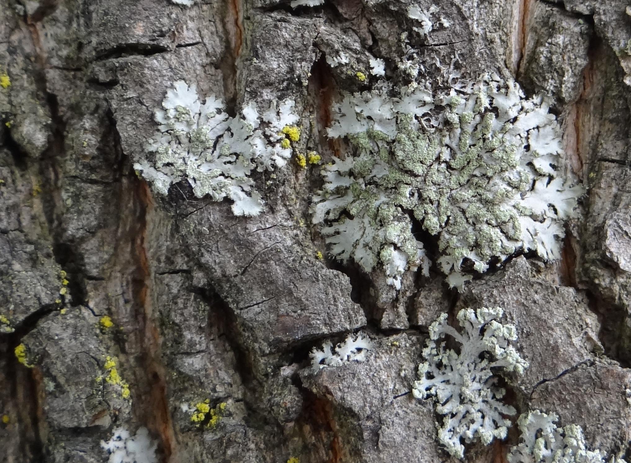 Phaeophyscia orbicularis